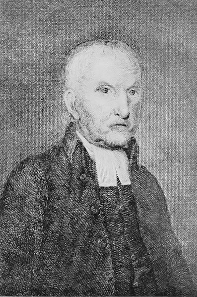 Portrait of rev. Benjamin Trumbull (1735-1820)